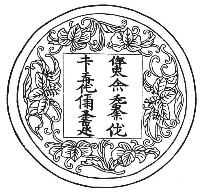 Copy of a drawing of a "medallion" with a Jurchen translation of the Chinese couplet 明王慎德、四夷咸賓 from 方氏墨譜 (Fāngshì Mòpǔ, 1588) vol. 1 folio 32b.